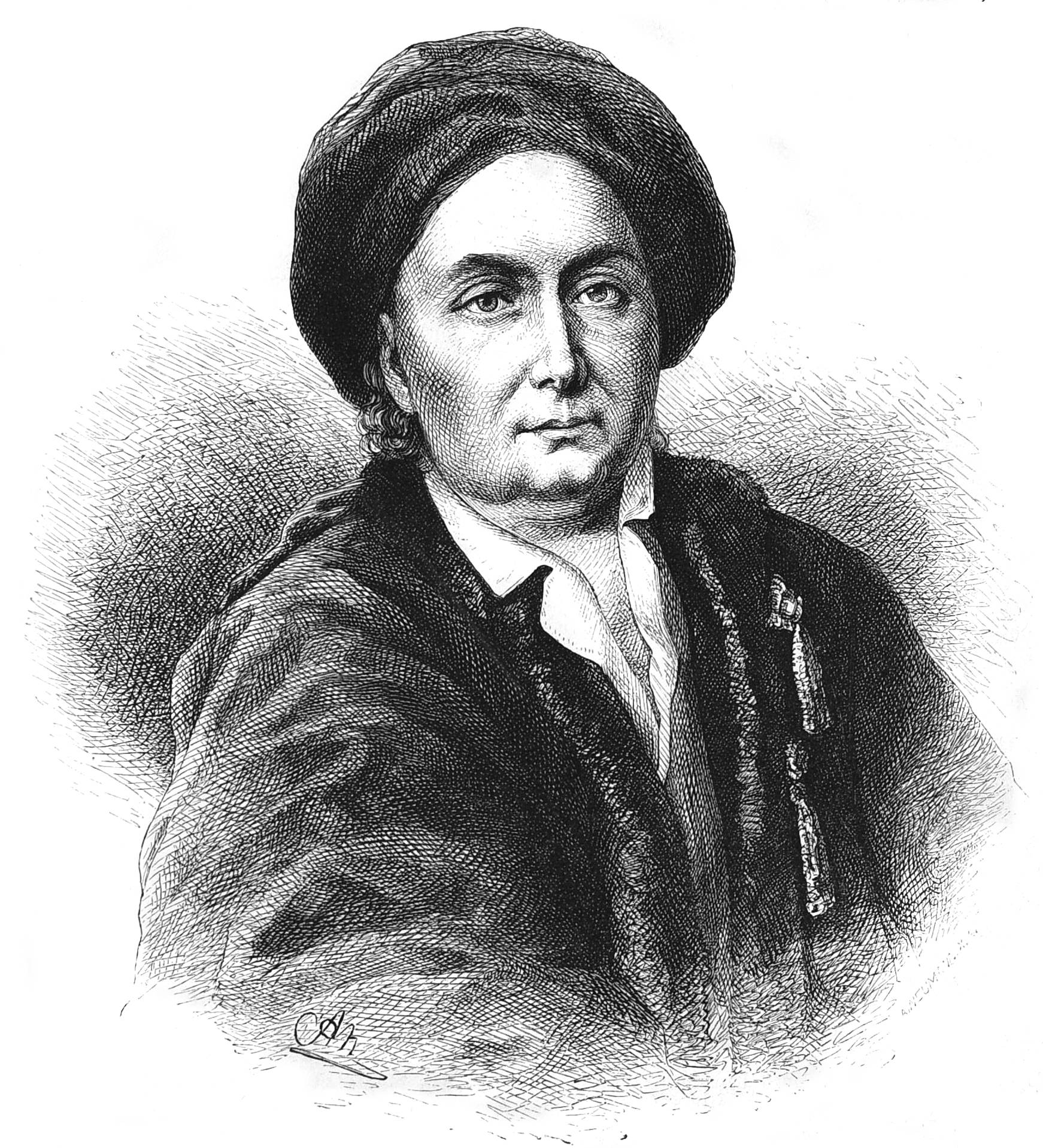 caption: "Beethoven's Großvater.Nach einem Gemälde vom Hofmaler Radoux in Bonn (Besitzerin: Frau Wittwe Karl van Beethoven in Wien)."